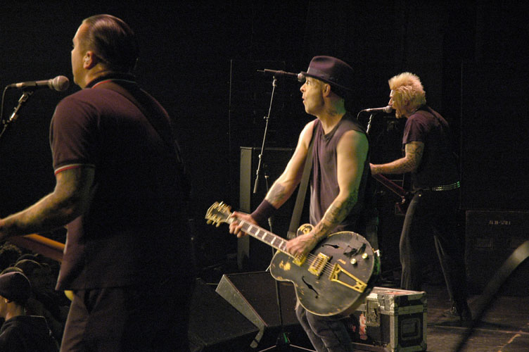 Tiffany HAgler Photography copyright 2006